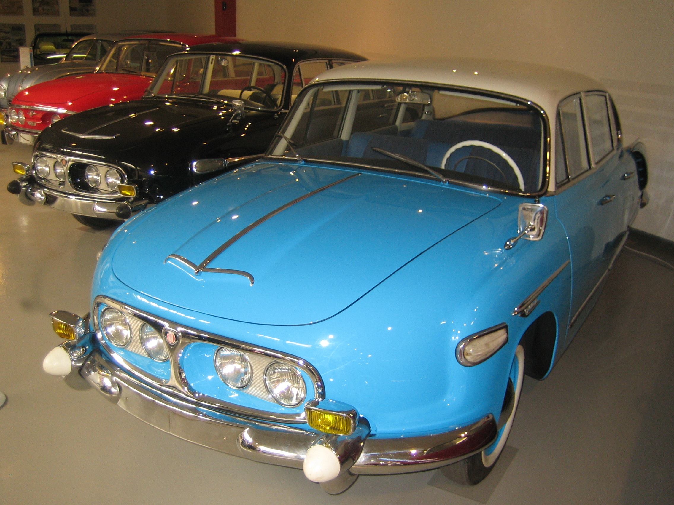 Tatra 2-603